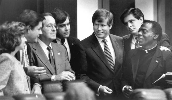 Father Sergio Carrillo of St.John the Apostle Church in Hialeah, Florida (right), meets with members of the Dade County delegation after he delivered the opening prayer in the Florida House of Representatives. Father Carrillo was a paratrooper at the Bay of Pigs and has been active in Cuban memorial ceremonies. Listening to Father Carrillo are the following representatives (L-R): Arnhilda B. Gonzalez-Quevedo, Republican from Coral Gables; Luis C. Morse, Republican from Miami; Roberto Casas, Republican from Hialeah; Javier D. Souto, Republican from Miami; Tom Gallagher, Republican from Coral Gables; and Al Gutman, Republican from Miami.